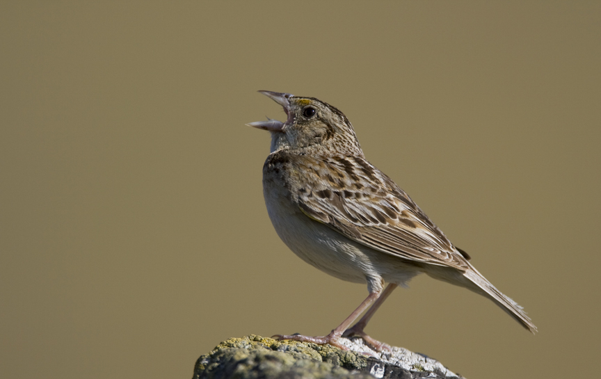 These guys should be "Grassrunner" Sparrow. They nest on the ground and have a habit of running through the grass to evade you. The only time they pop up is during nesting season when any elevated perch will suffice.